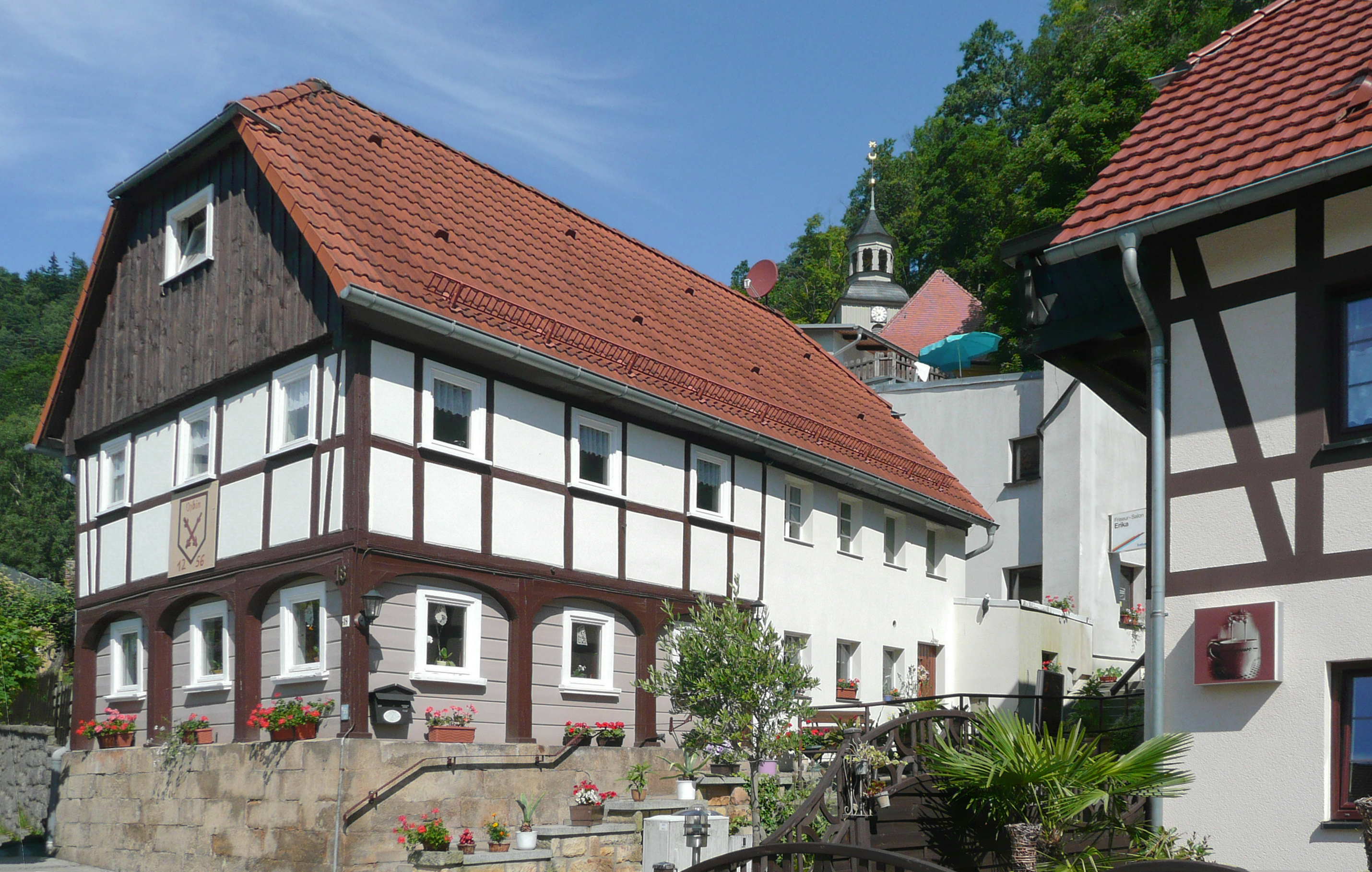 Umgebindehaus, Hauptstrasse 18 in Oybin